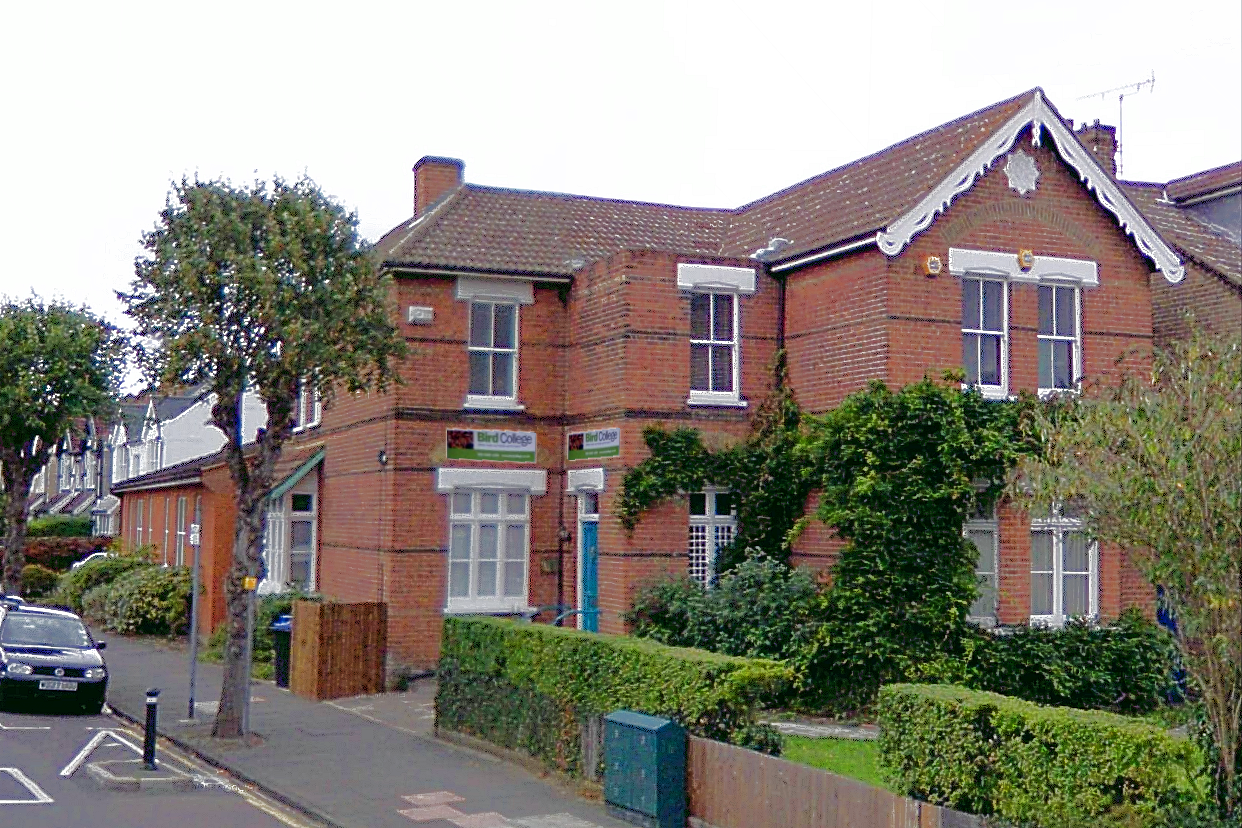 Studio House, situated on Station Road in Sidcup, Kent. It is one of the sites used by Bird College. This image shows clearly the former residential property and extension to the rear which houses the colleges studio theatre.